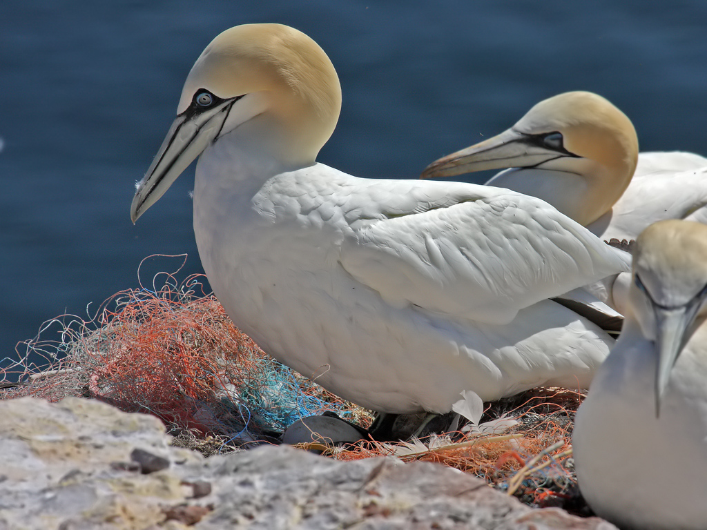 Northern Gannet